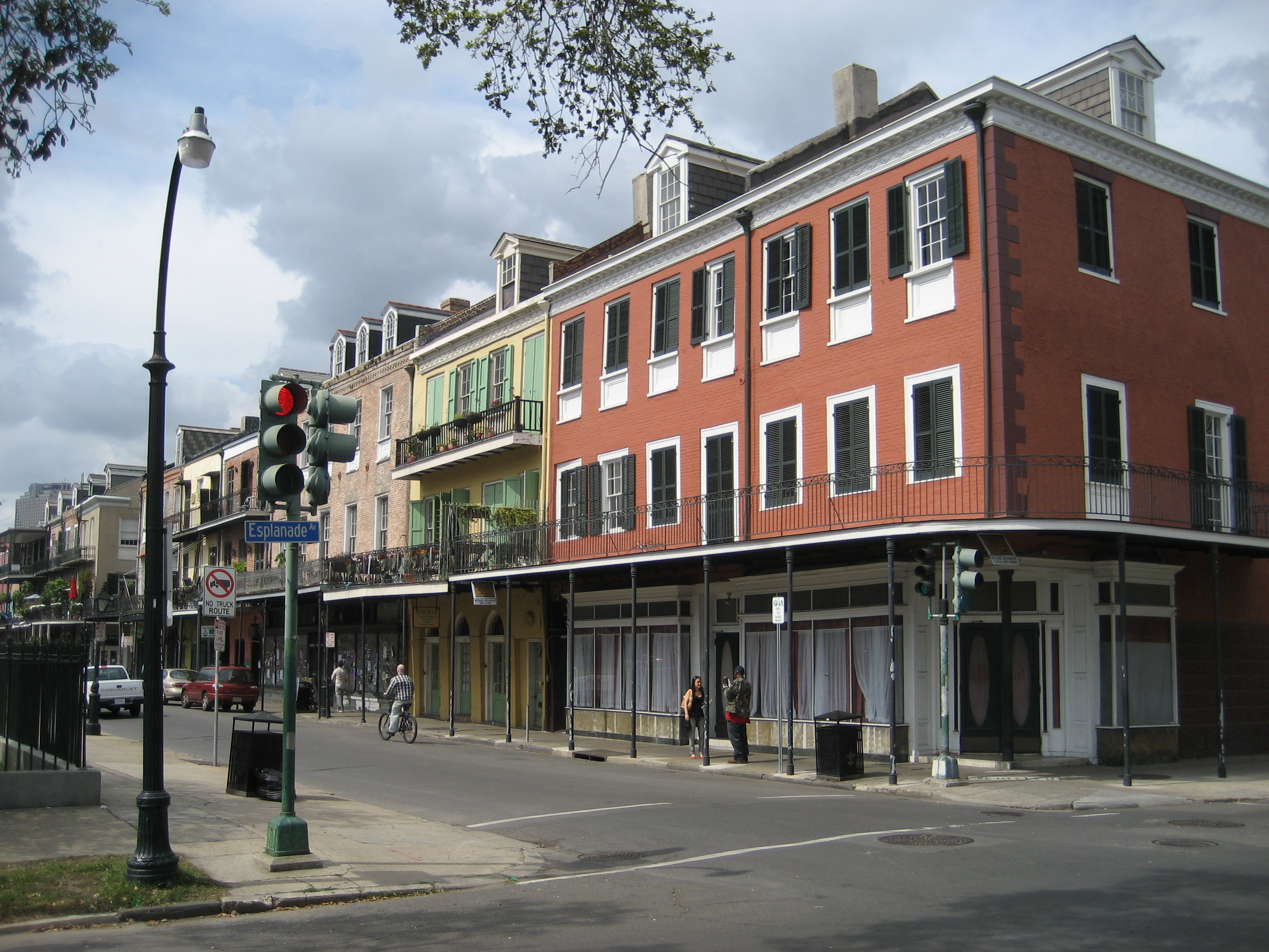 Decatur Street looking up from Esplanade Avenue, New Orleans French Quarter. Building formerly housing such entertainment venues as "The Mint", "Matador Lounge", and most recently Harry Anderson's "Oswald's Speakeasy".